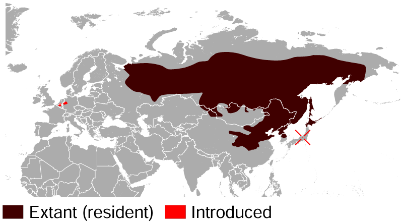 Geographical distribution of the Siberian Chipmunk Tamias sibiricus. The map was created using the Generic Mapping Tools, GMT, version 5.1.2.